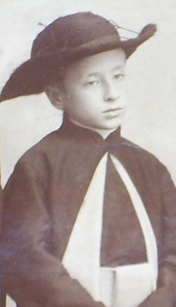 Guillermo Tritschler y Córdova, student at the Latin American College in Rome